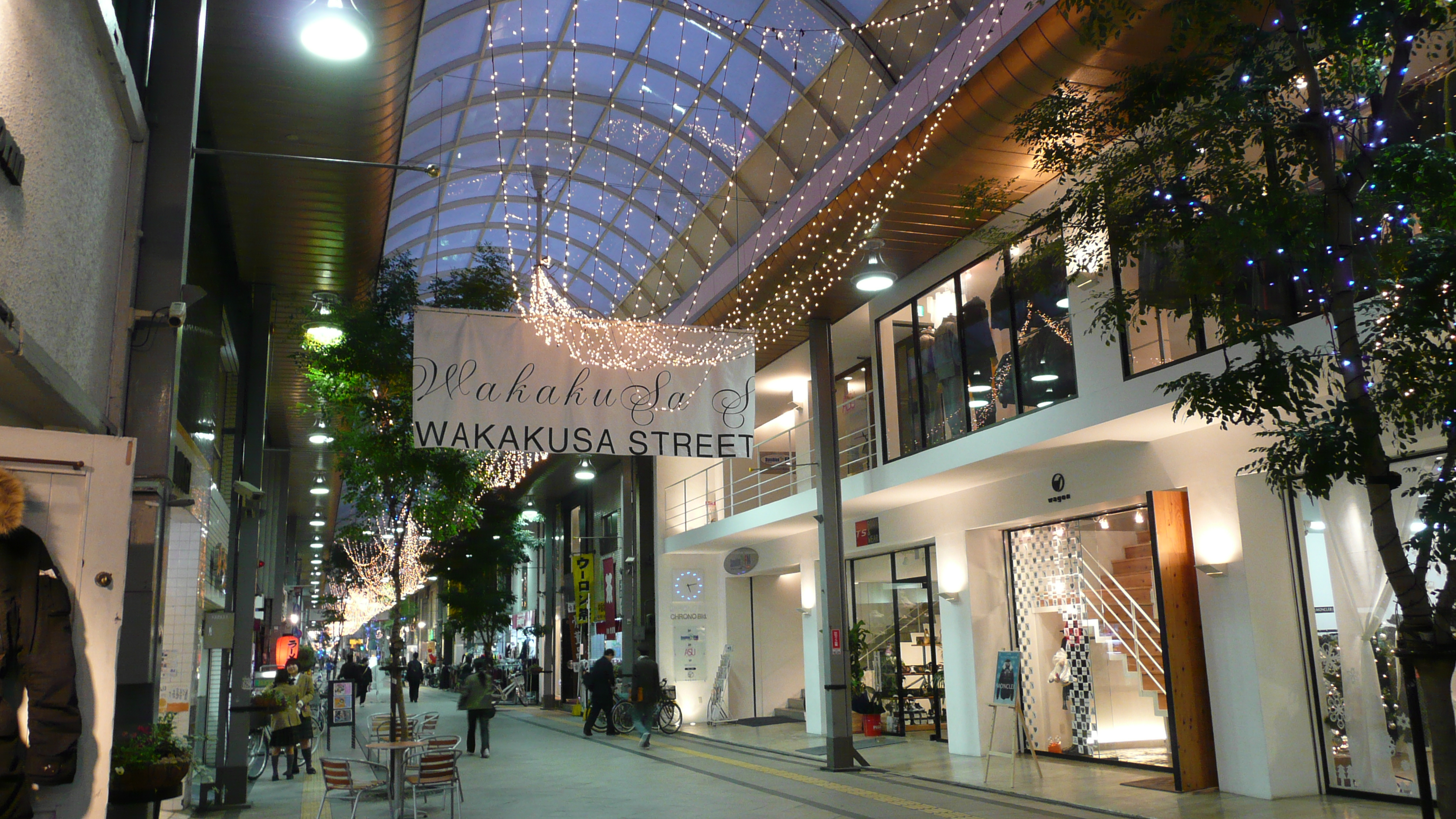 Wakakusa Street (Miyazaki, Japan)